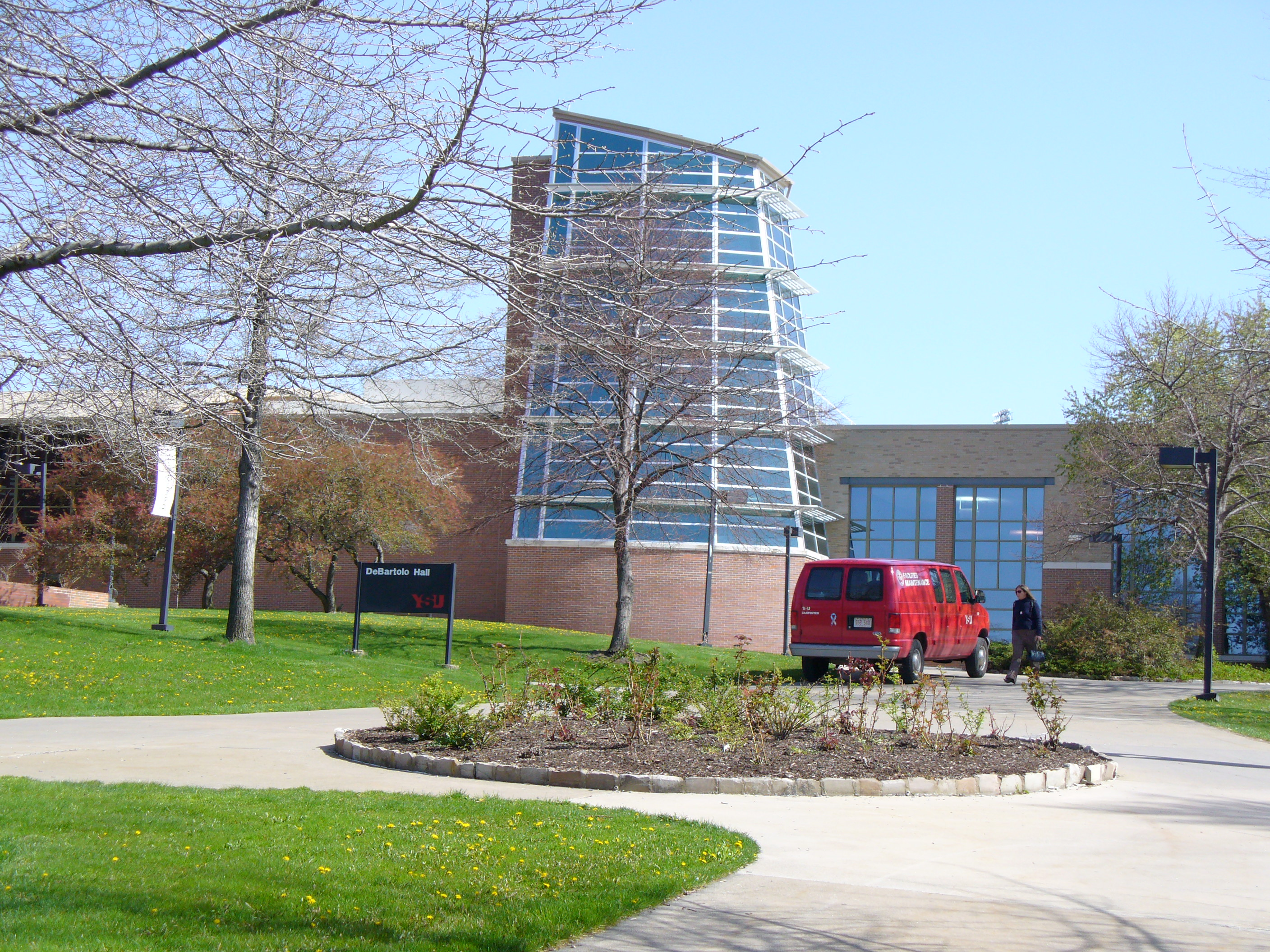 Youngstown State's Andrews Recreation and Wellness Center Photo by user Blue80, 18/4/06